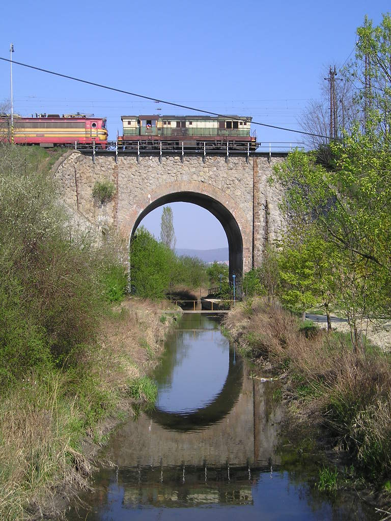 River Mlaka in Devinska Nova Ves